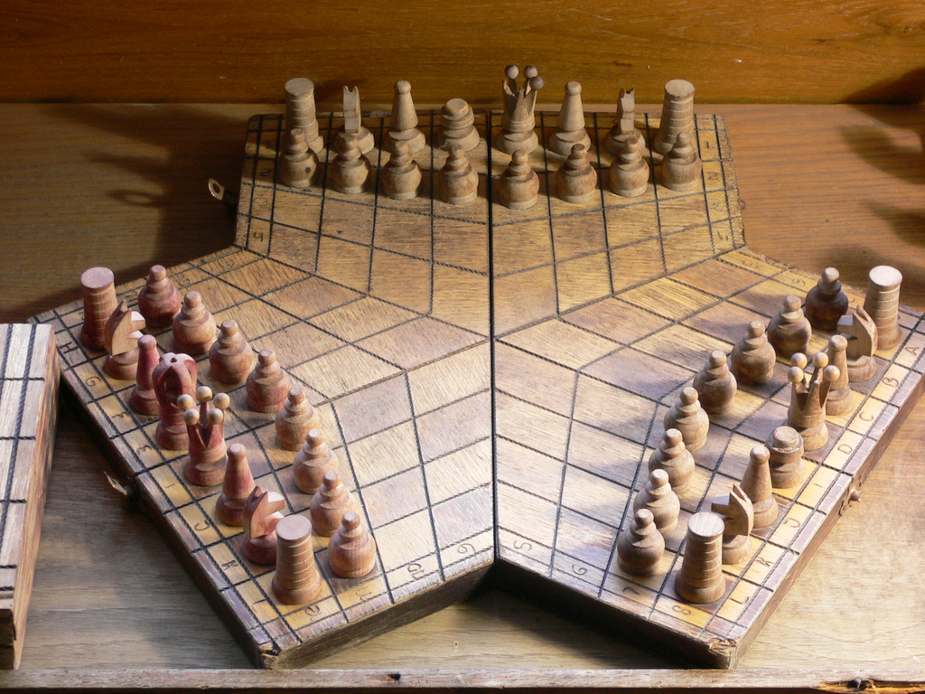 This was seen in Prague (CZ), 3 players chessboard